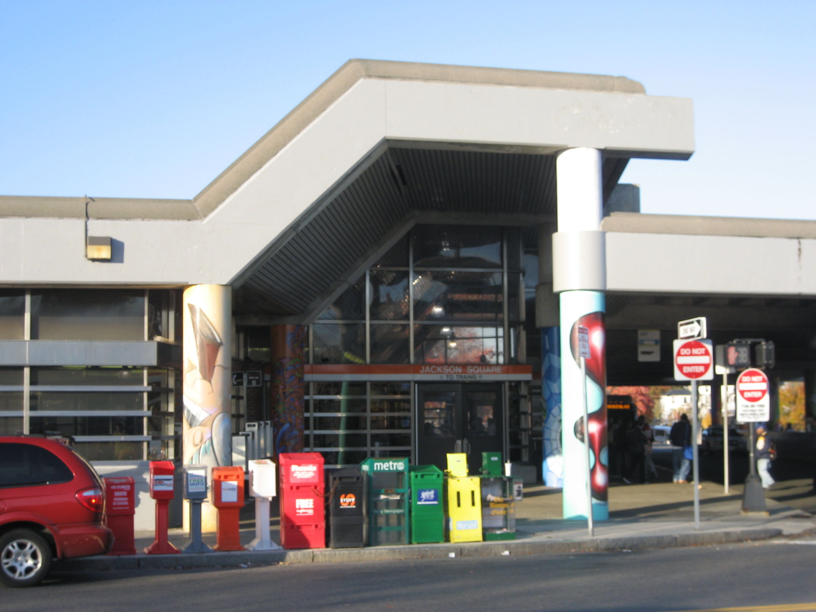 Jackson Square Station on the MBTA Orange Line in Jamaica Plain